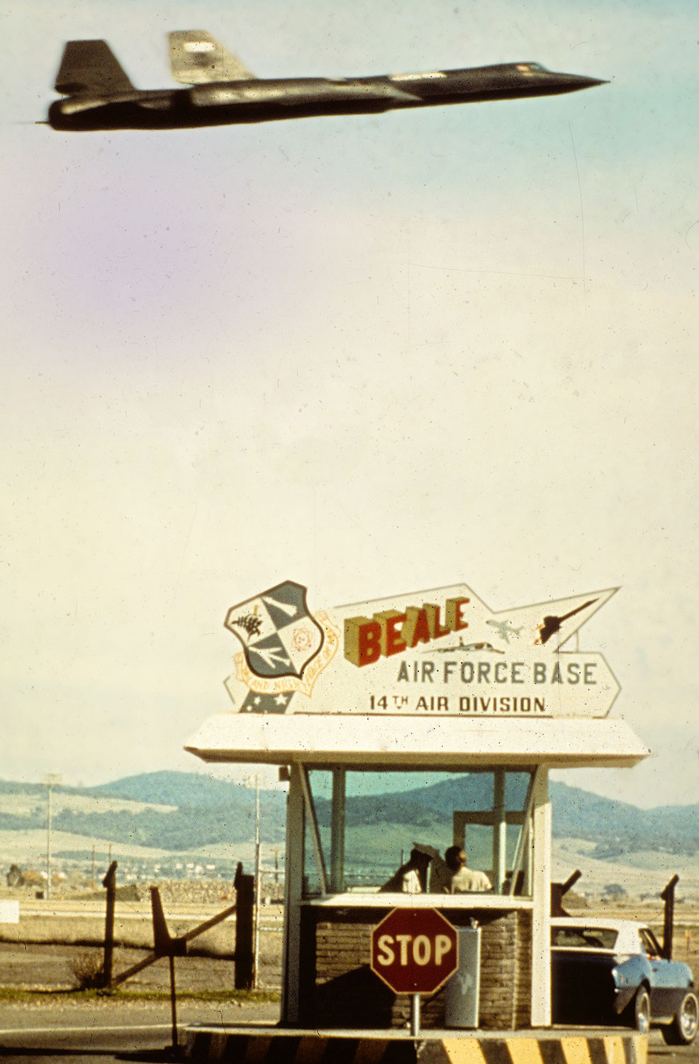 An SR-71 Blackbird flies over the the old gate at Beale Air Force Base circa 1970s. (Courtesy photo/9th Reconnaissance Wing)